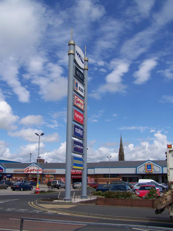 Hindpool Road Retail Park, Barrow-in-Furness